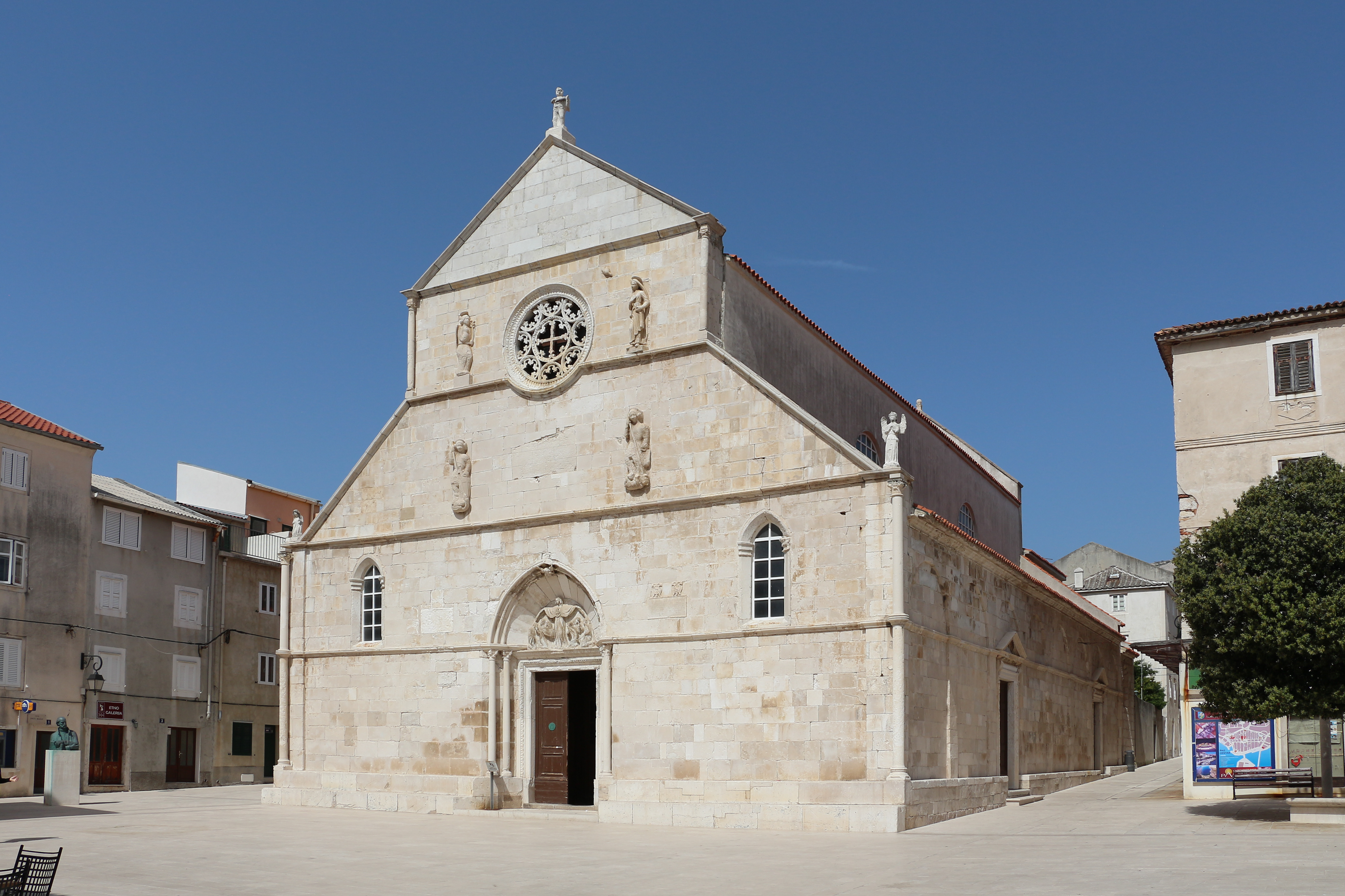 Basilica of the Assumption of Mary, Pag (town), Croatia